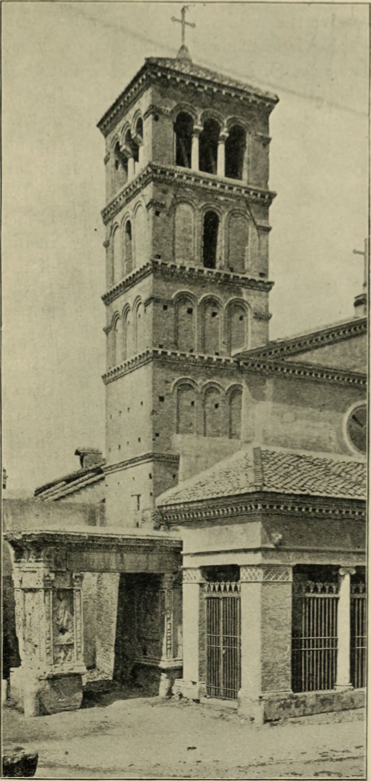 Title: A history of architecture in Italy from the time of Constantine to the dawn of the renaissance Year: 1901 (1900s) Authors: Cummings, Charles Amos, 1833-1905 Subjects: Architecture Publisher: Boston, New York, Houghton Mifflin and company Text Appearing Before Image: )en archeson each face, was removedin the sixteenth centuryby order of the Spanishgoverhor of Milan, onthe pretence that so loftya tower threatened thesafety of his palace hardby. But the belfry, withthe stage below it, hasbeen rebuilt during thelast twenty years. (SeeFig. 80.) With manyvariations of detail thistype of tow^er, which, withrare exceptions, stood nearthe church, but was notattached to it, is singularlypersistent in Italy for atleast five hundred years : Text Appearing After Image: Fig. lO^. b. Giorgio in Velabro. and it was carried by Lombard builders far beyond the borders ofItaly into Germany and southern France. It is singular that the oldest square towers now in existence arethose of Kome. The one concession made by the conservatism of 170 ARCHITECTURE IN ITALY Rome to the encroaching intlnence of the invaders was in the atlop-Roman tion, though in a modified form, of the Lombard type ofTowers. towers. As early as the first quarter of the seventh centurythe earlier basilicas, even those of the time of Constantine, began toreceive the addition of campaniles. The tower of SS. Giovanni ePaolo ^ is mentioned in contemporary records as early as 62G. Thetowers of S. Lorenzo in Lucina and S. Agnese fuori le Mura are ofabout the same date, and that of S. Giorgio in Velabro is a half cen-turv later. (Fig. 108.) The tower of S. Lorenzo fuori was added about 720 and that of S. GiovanniLaterano, St. Peters, S. Giovanniin Porta Latina, S. Croce in Ge-rusalemme, and S. M